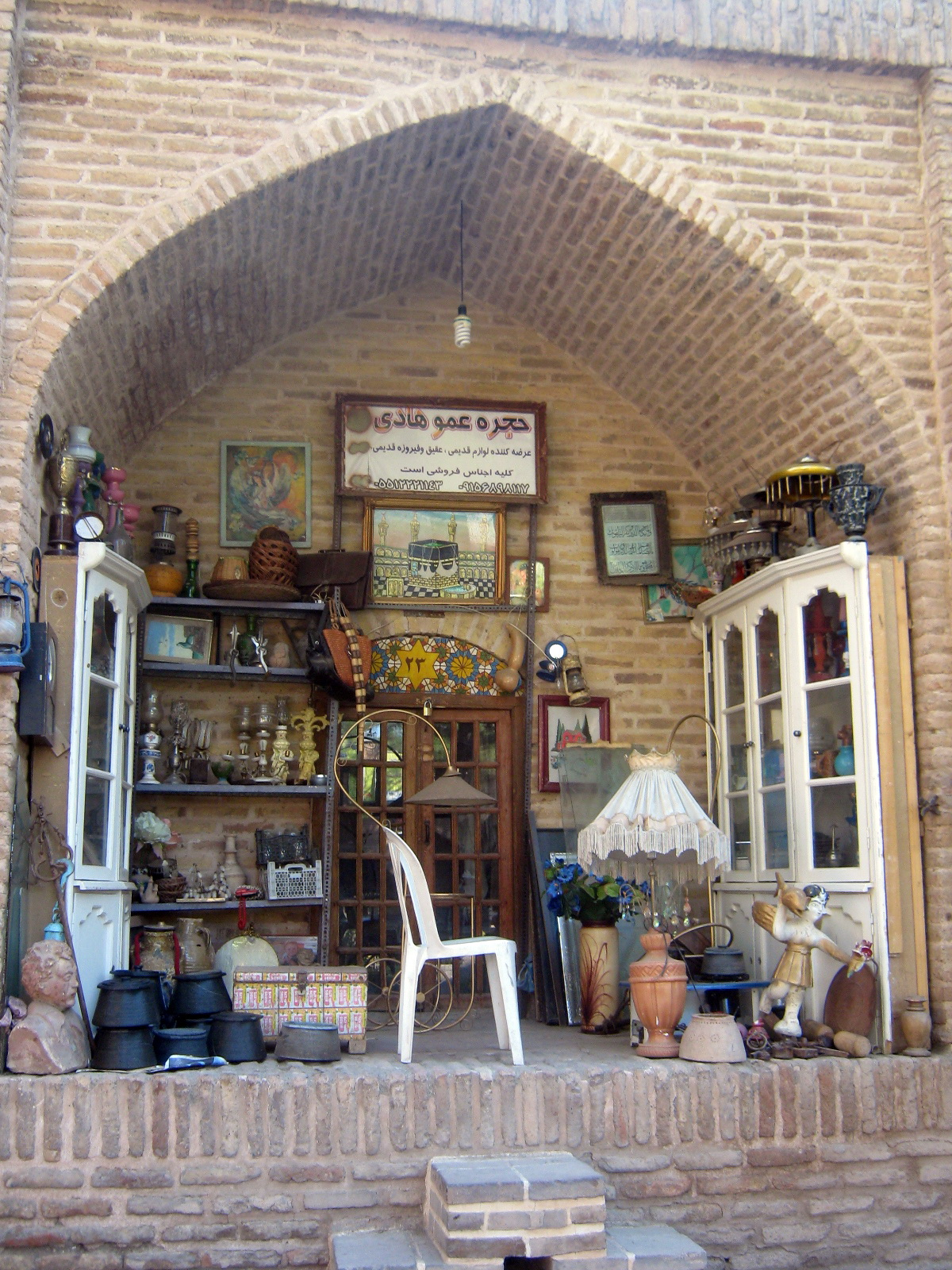 Abbasid Caravanseray of Nishapur (Ribati-i-Abbasi of Nishapur) - Morning